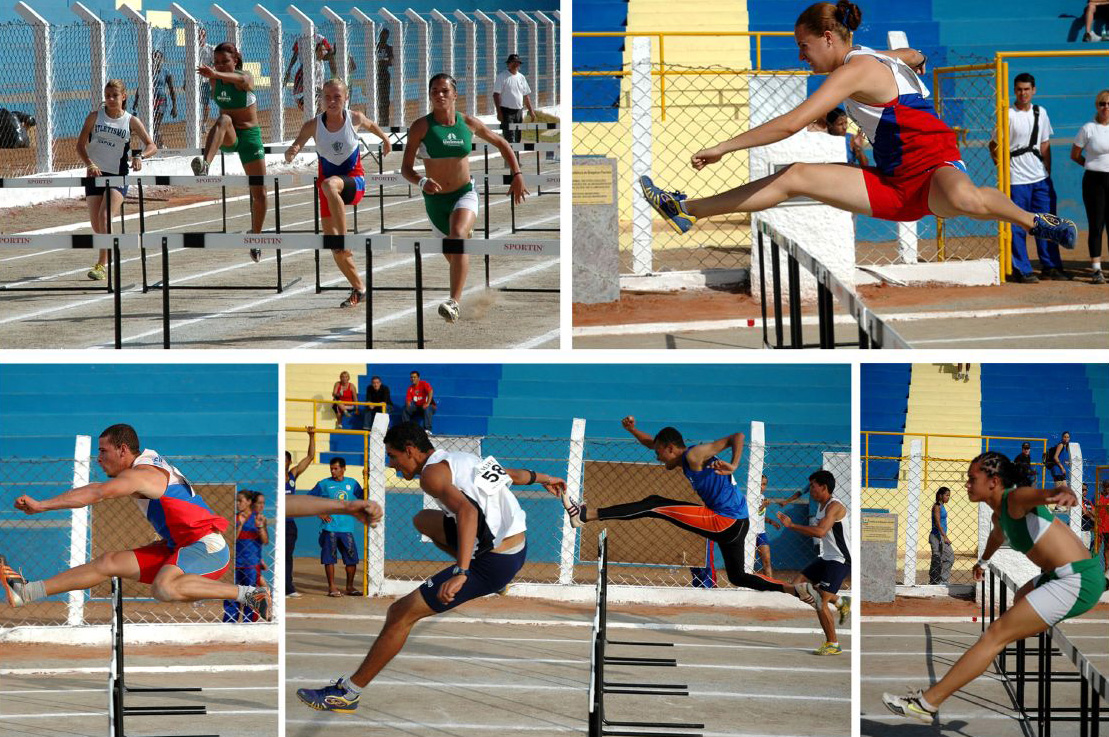 A sequence of hurdling images.